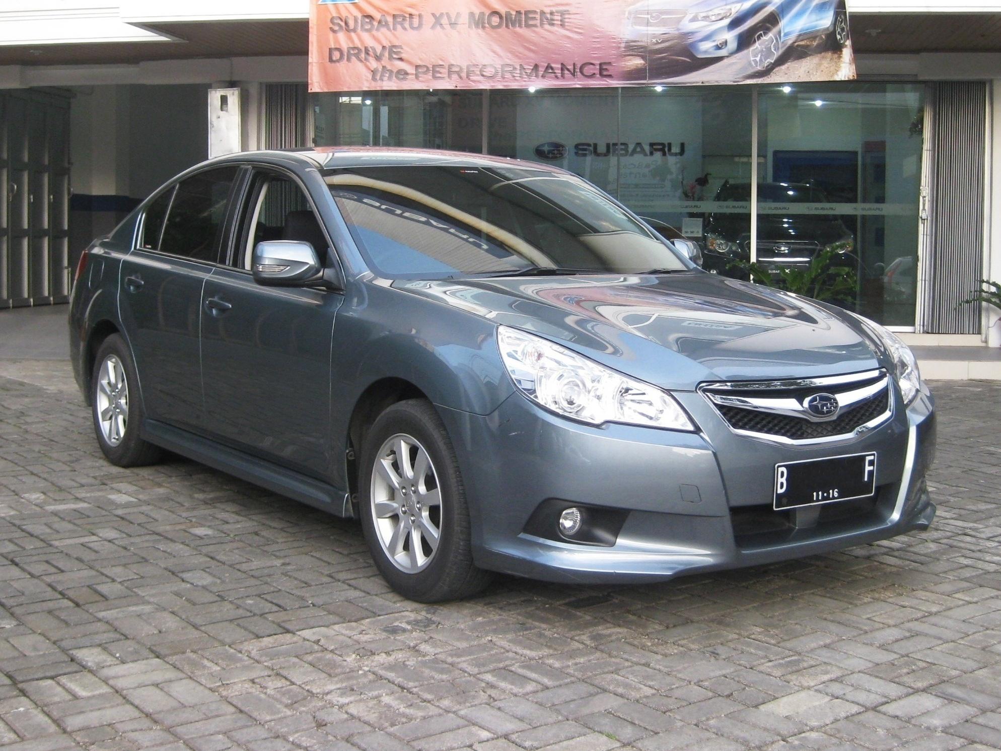 2011 Subaru Legacy 2.0i (BM) shown in Sage Green Metallic.